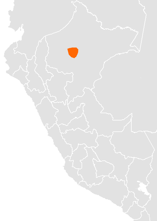 Urarina language in North Perú, Sourcre: on data of Mary Ruth Wise "Small languages families and isolates in Peru" in The Amazonian Languages, Dixon & Alexandra Y. Aikhenvald (eds.), Cambridge: Cambridge University Press, 1999. p. 307-340. Also Ethnologue map of Peru